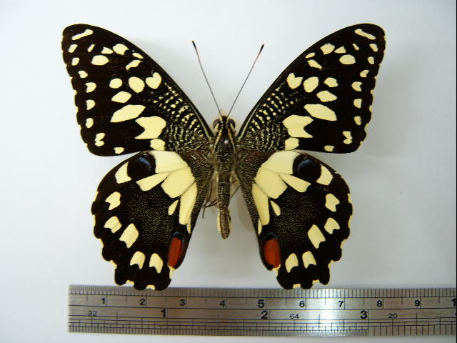 Kerry took this picture at his house on 16 July 2005 Scientific name: Papilio demoleus ♂ (back) Date of collection: VIII 1996 Place of collection: Taipei city, Taiwan